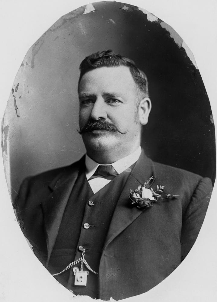 Alderman T. Wilson, 1915.